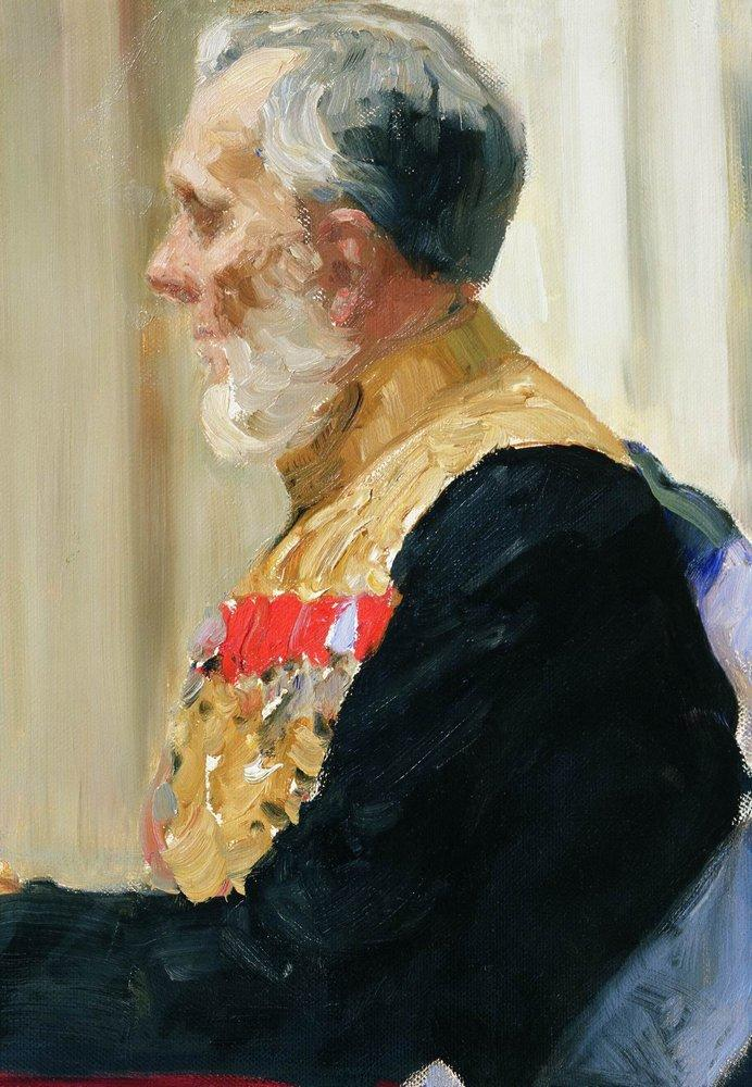 Portrait of Secretary of State and member of State Council Count Konstantin Ivanovich Palen. Study for the picture Formal Session of the State Council